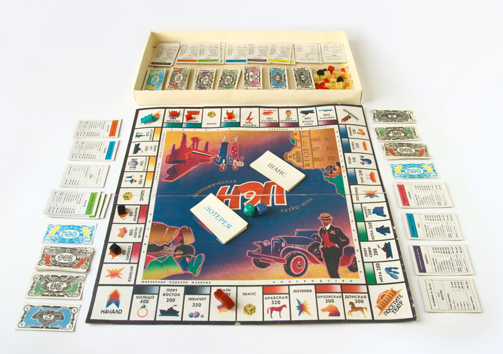 N.E.P (New Ecomomic Policy) board game, a Soviet "Monopoly" clone (1989)